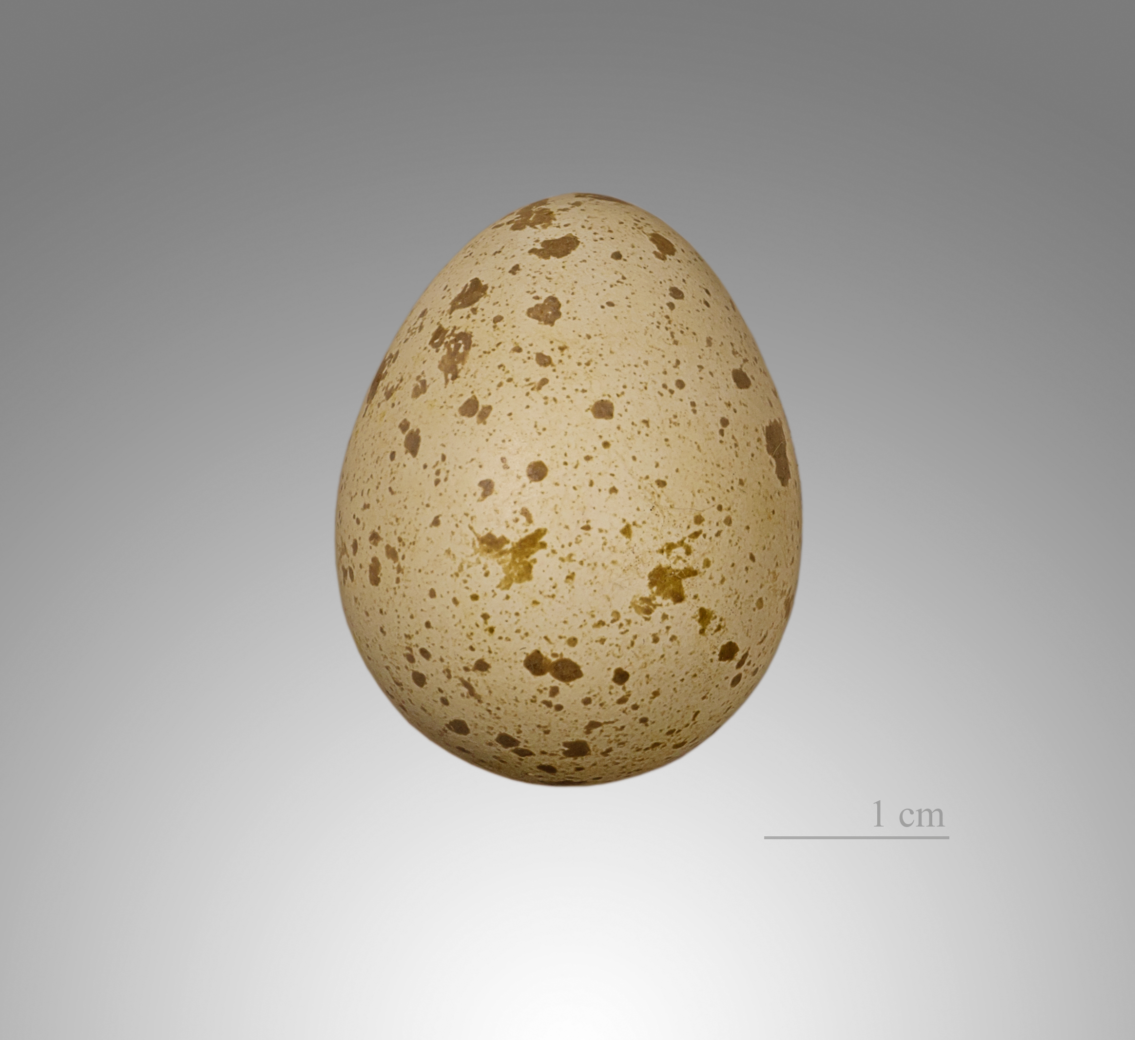 Egg of California Quail. Collection of Jacques Perrin de Brichambaut.